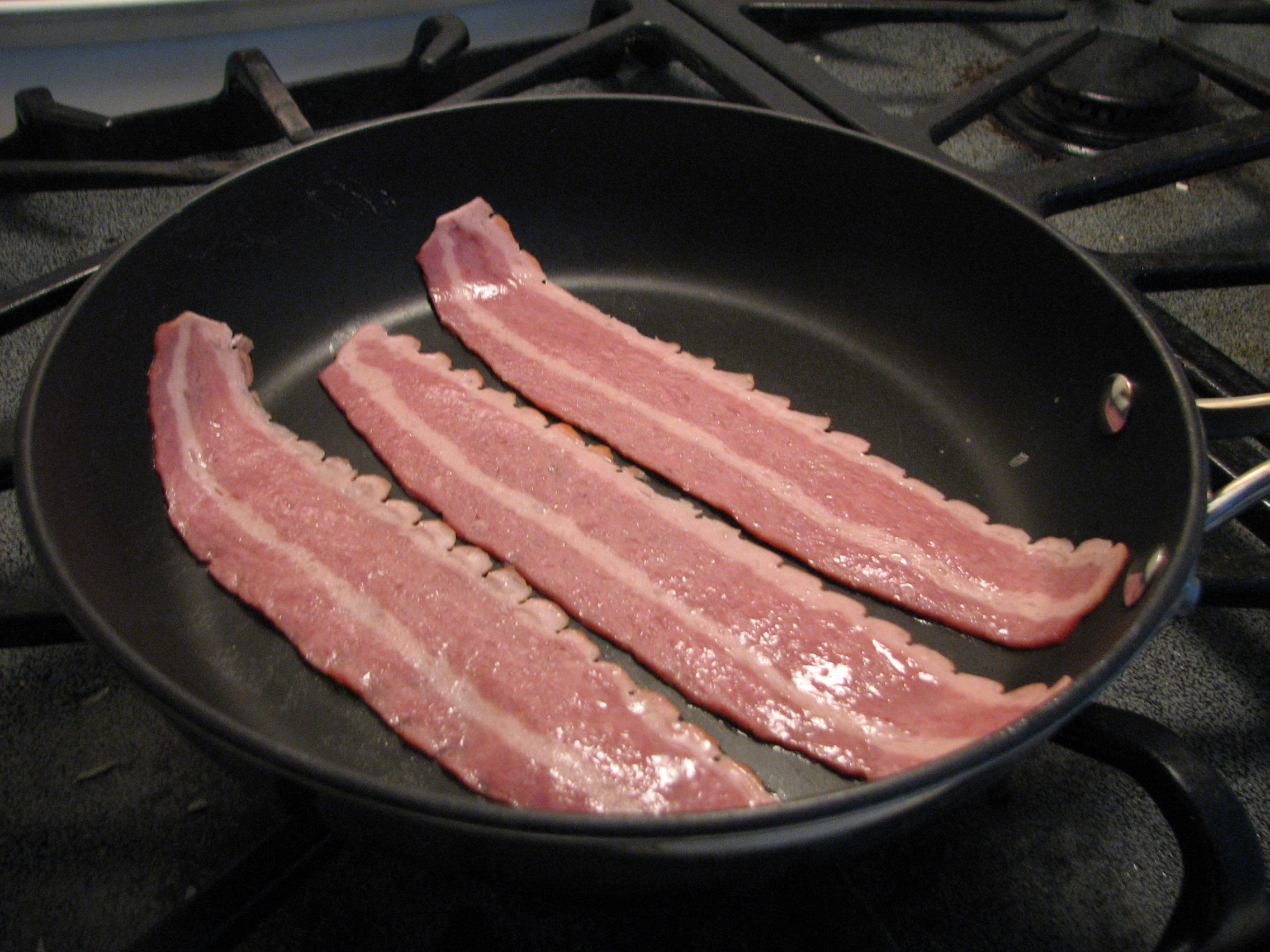 Three strips of Oscar Mayer brand turkey bacon cooking in a skillet.